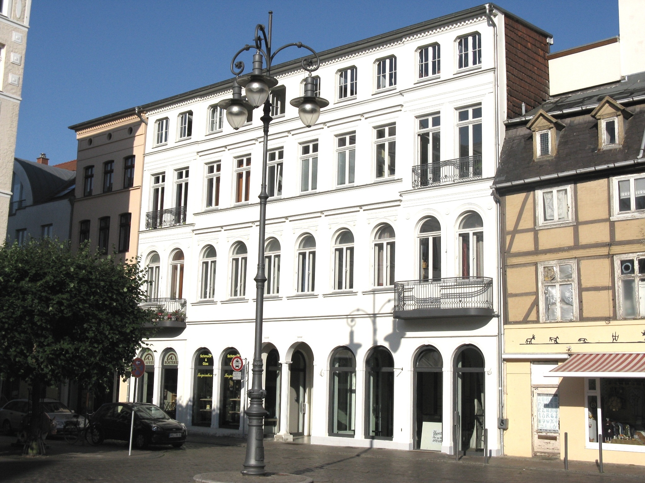 Building at market in Schwerin, Germany - Am Markt 4/5